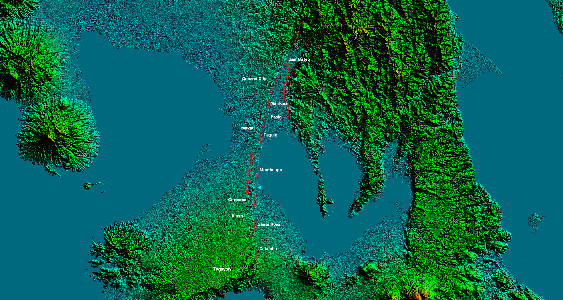 Metro Manila and nearby provinces relief map on 1 arc second/30-meter resolution from SRTM released September 23, 2014 Rectangular Projection based on coordinates W= 120° 19' 53.1727" E N= 14° 54' 8.3734" N E= 121° 54' 11.3526" E S= 14° 03' 50.6774" N AREA= 15804 sq km